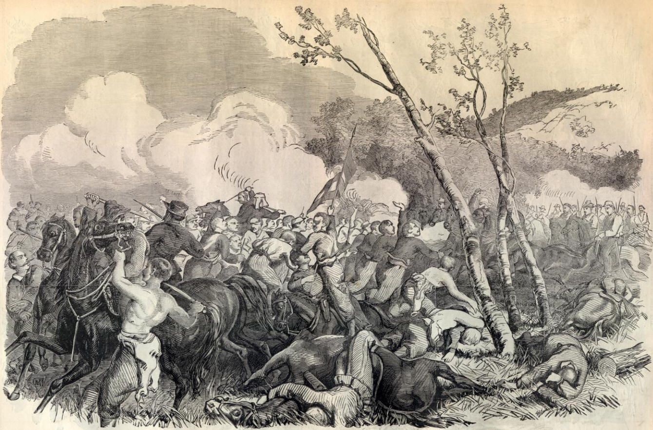 Charge of the Black Horse Cavalry upon the Fire Zouaves at the Battle of Bull Run.